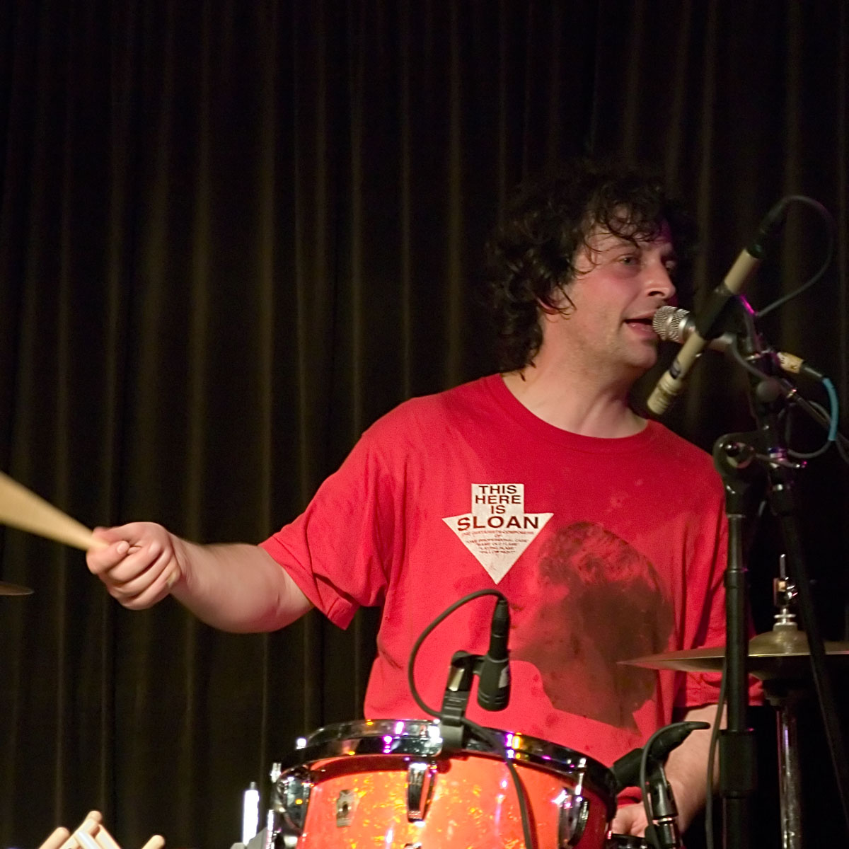 The New Pornographers at the Belly Up.